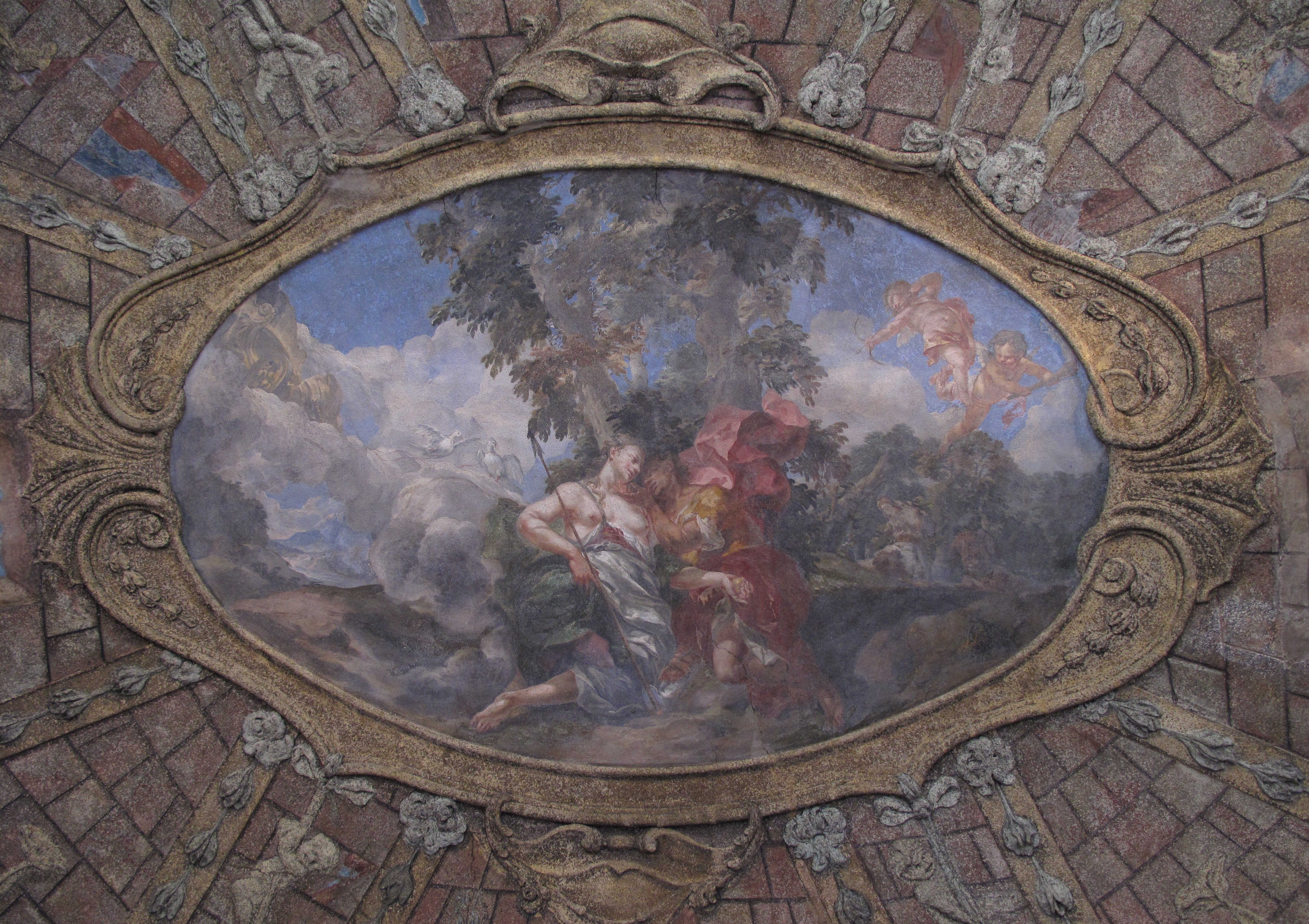 Venus and Adonis on the fresco in sala terrena of Vrtba Garden by Václav Vavřinec Reiner (1689-1743), Prague, Czech Republic.